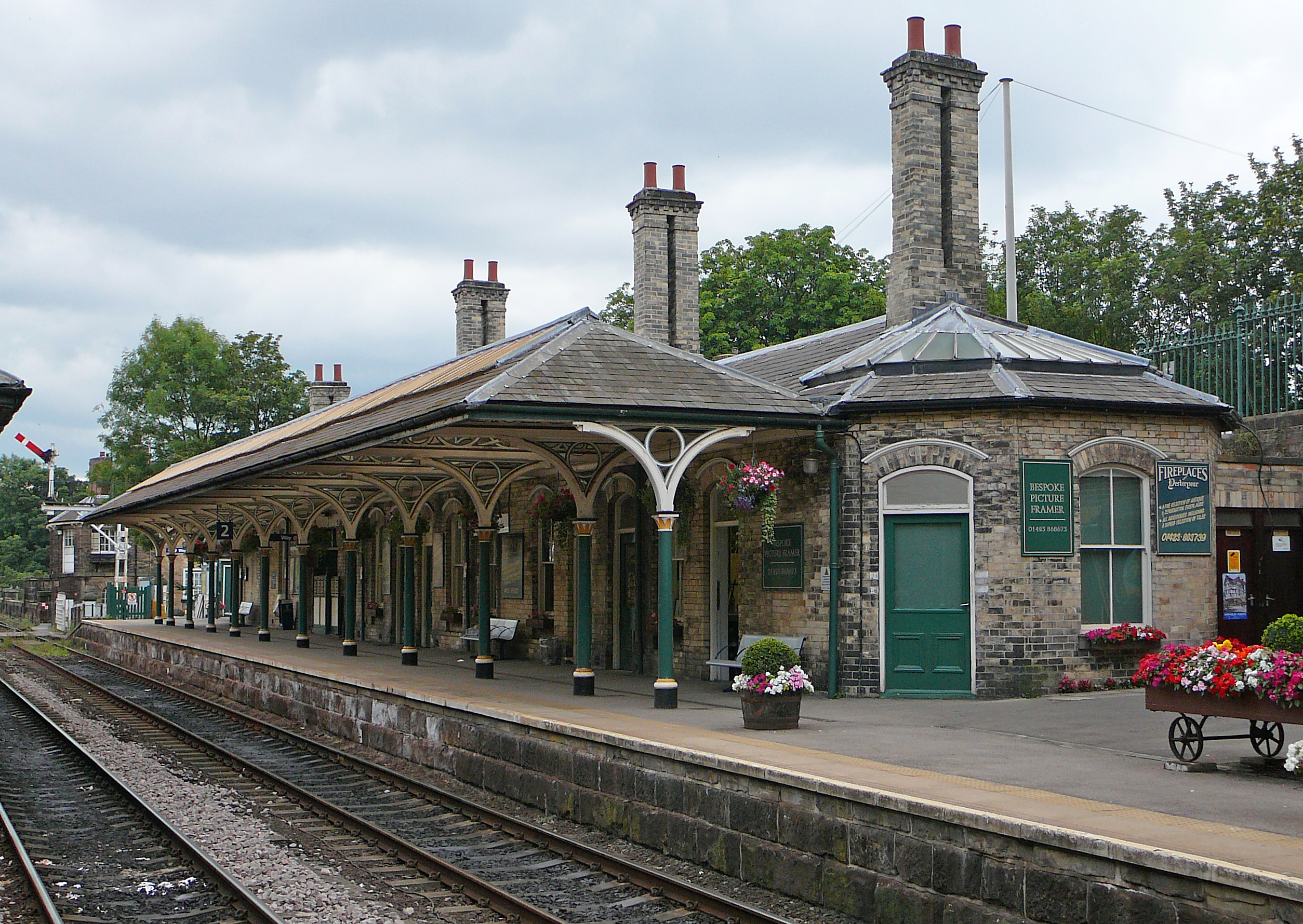 Knaresborough Station